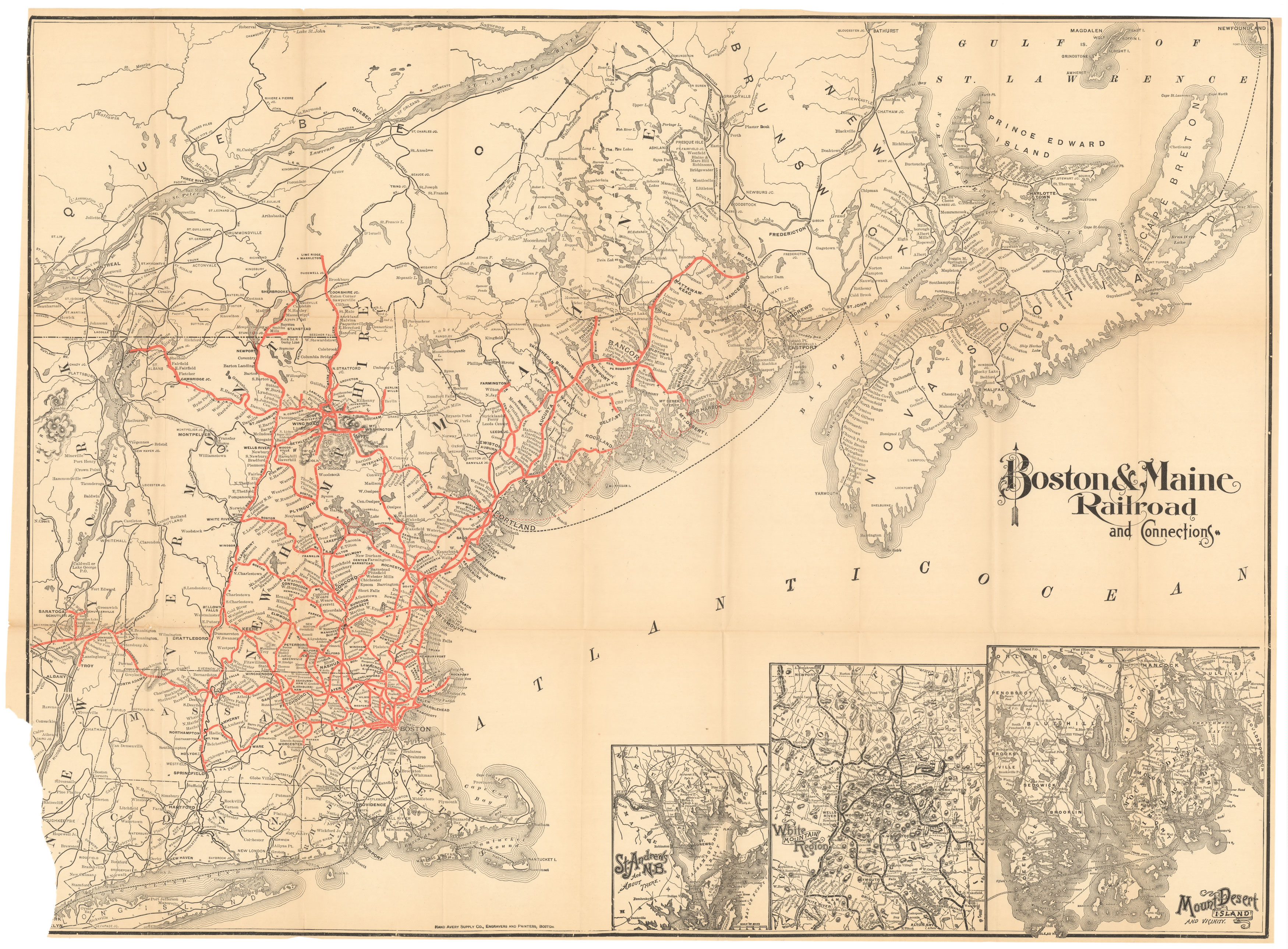 1901 map of the Boston & Maine Railroad and the Maine Central Railroad